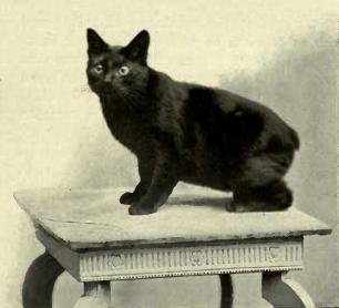 Black Manx cat. "GOLFSTICKS." OWNED BY Miss SAMUELS.